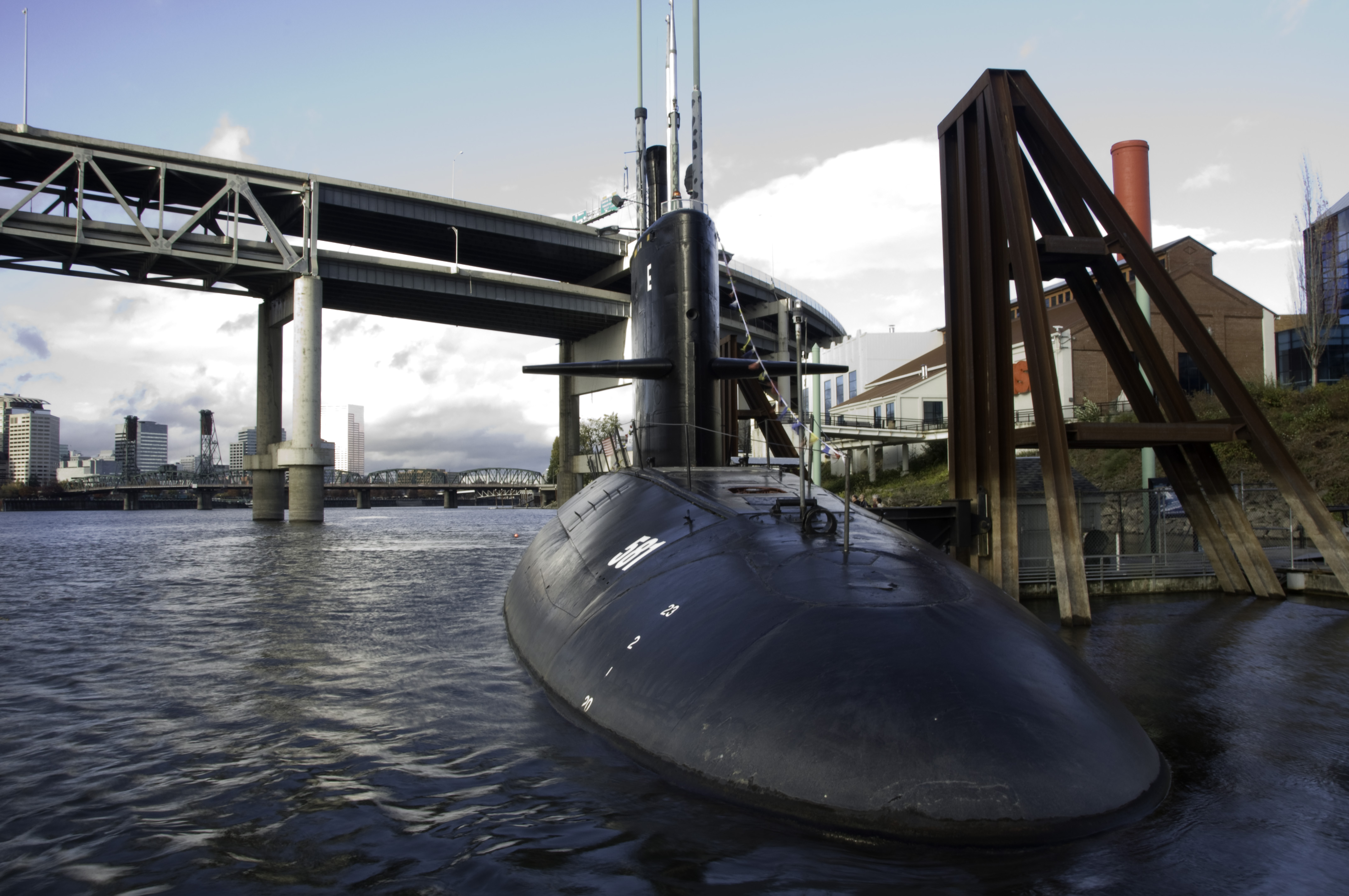 USS Blueback (SS-581) at the Oregon Museum of Science and Industry